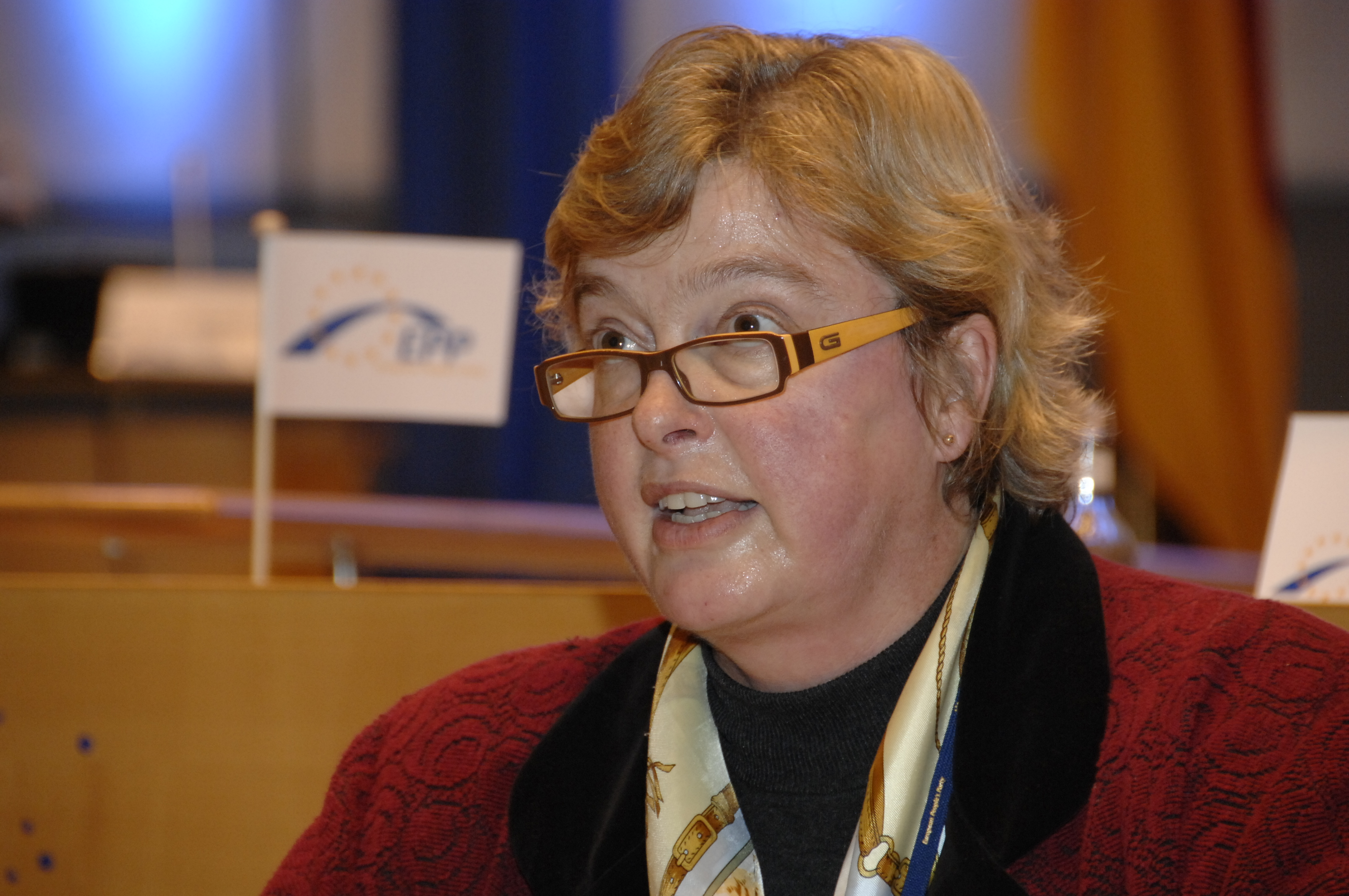 EPP Congress Bonn